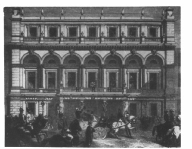 This engraving shows the then Prime Minister, Lord Palmerston, arriving on the High Street to open the newly built Hartley Institute in 1862